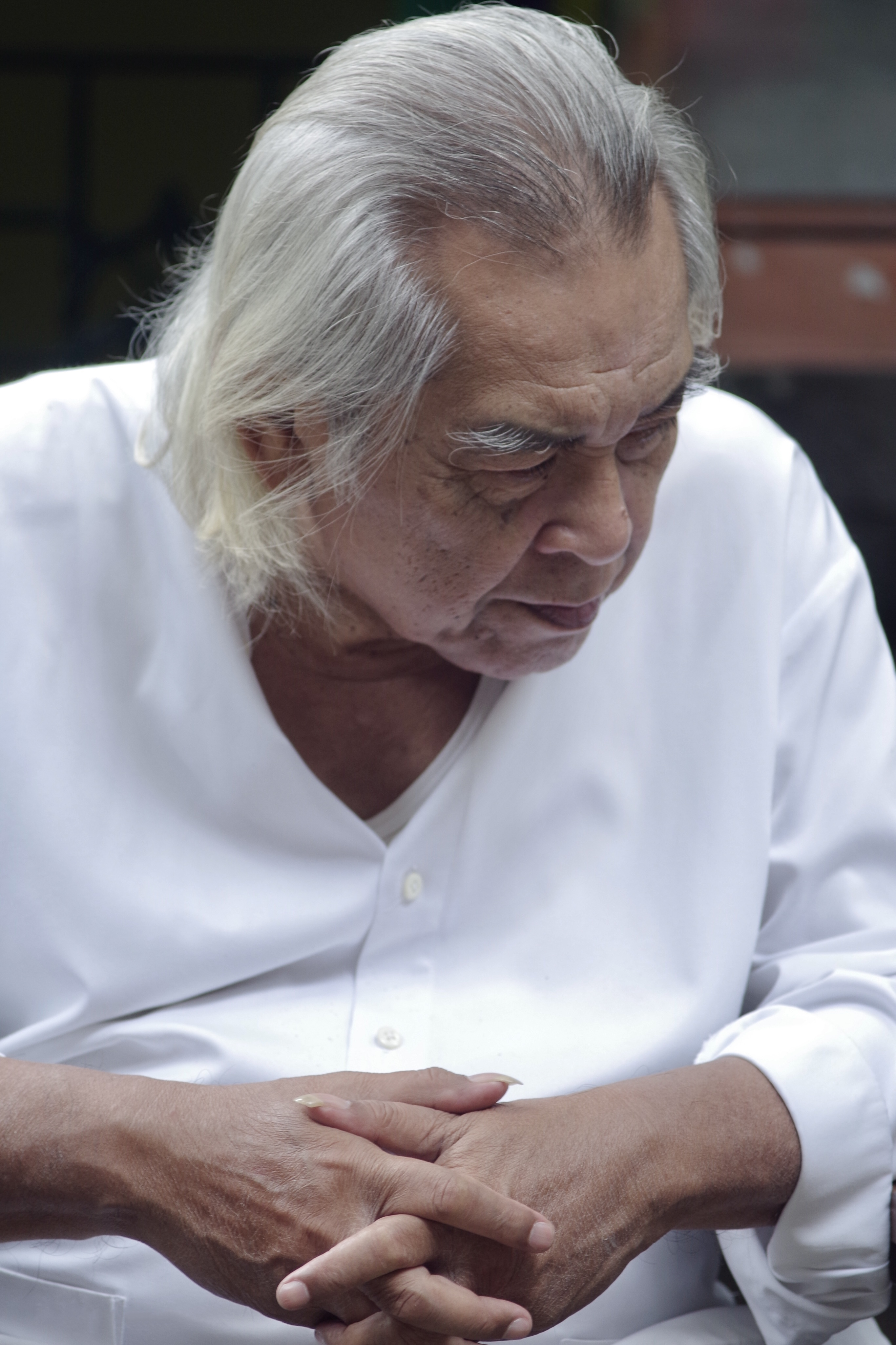 Photo by Adjie Dunston Iriana, Gugum Gumbira the creator of Jaipongan Traditional dance from Indonesia